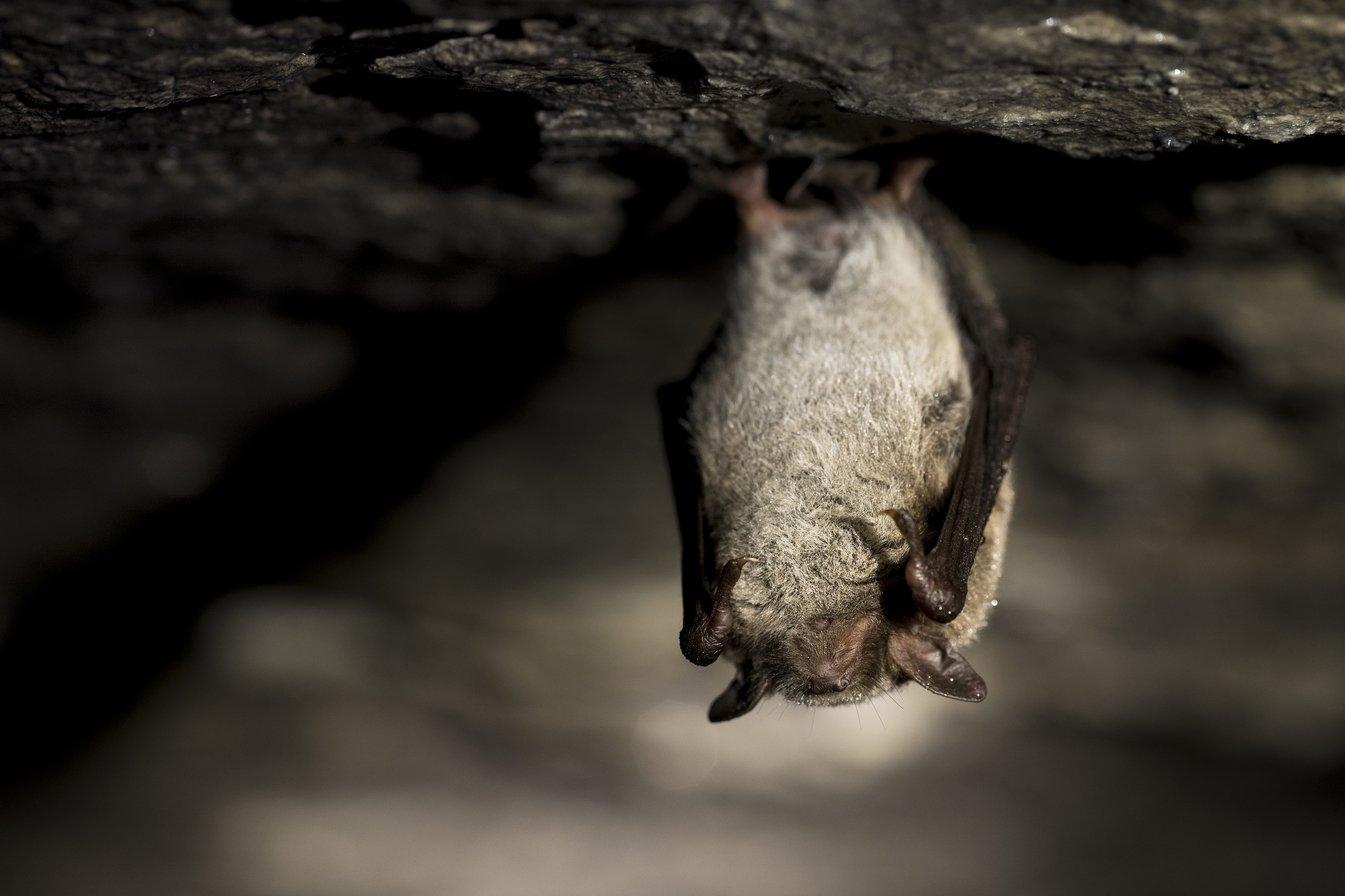 Myotis daubentonii hibernating. Photographed during national monitoring.